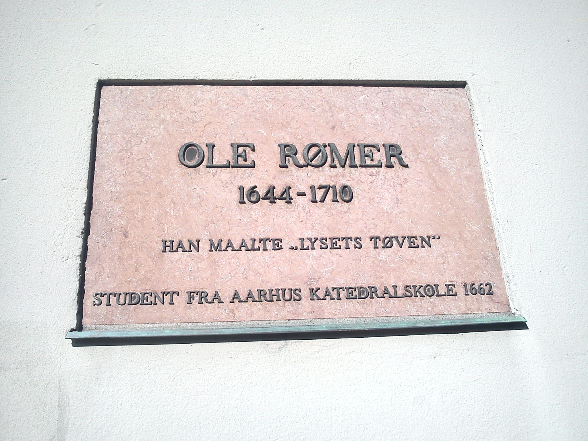 One of the famous students from Aarhus Katedralskole was Ole Rømer. He graduated here in 1662.